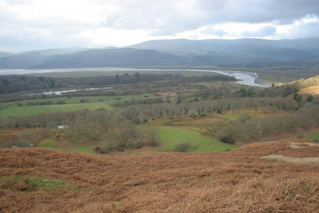 Ynys-hir from above The loop of the Dyfi estuary which encloses the Ynys-hir RSPB reserve as seen from the slopes of Foel Fawr above the village of Eglwys Fach.